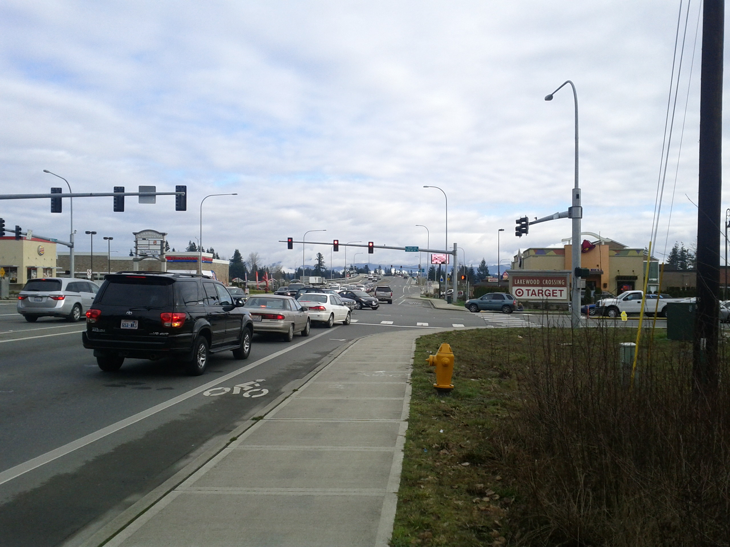 Washington State Route 531 eastbound at 27th Avenue, nearing the Interstate 5 bridge and interchange in North Lakewood, Washington.